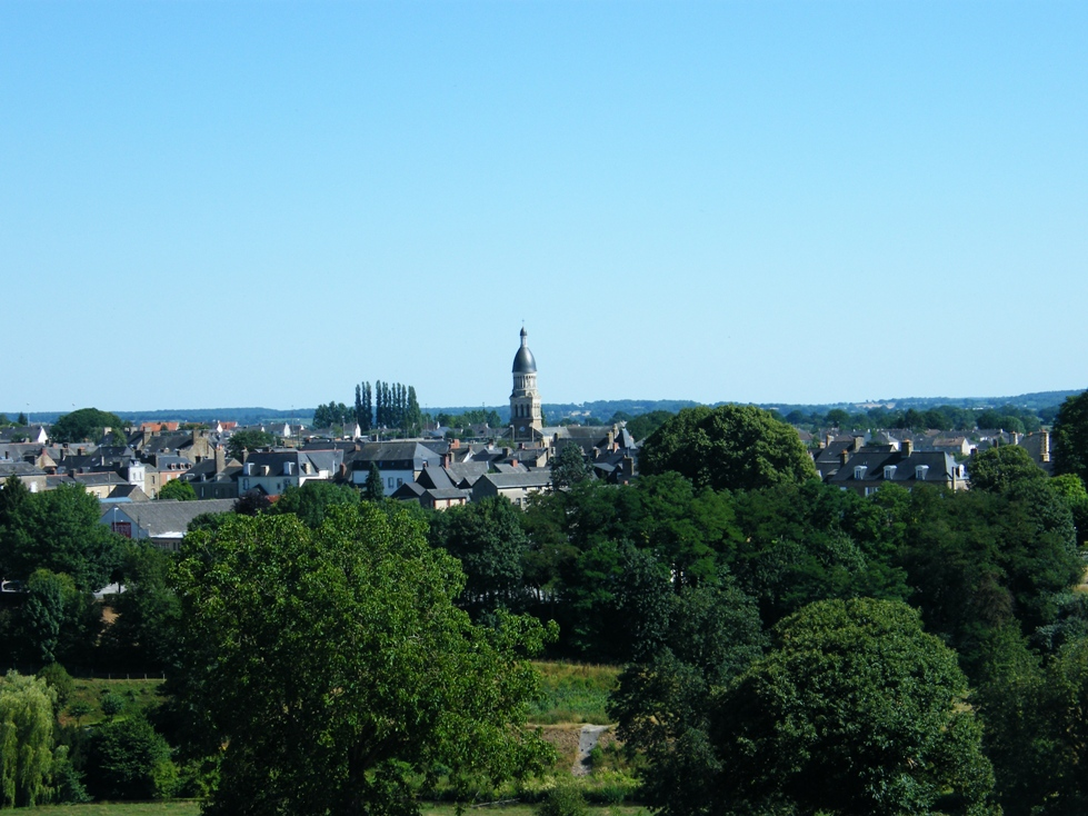 Ernee taken from the hill to the North of the town. Old church centre of photo.